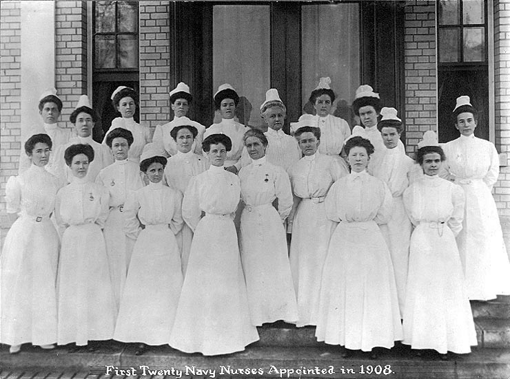 Group photograph of the first twenty Navy Nurses, appointed in en:1908. Taken at the Naval Hospital, Washington, D.C., circa October 1908.